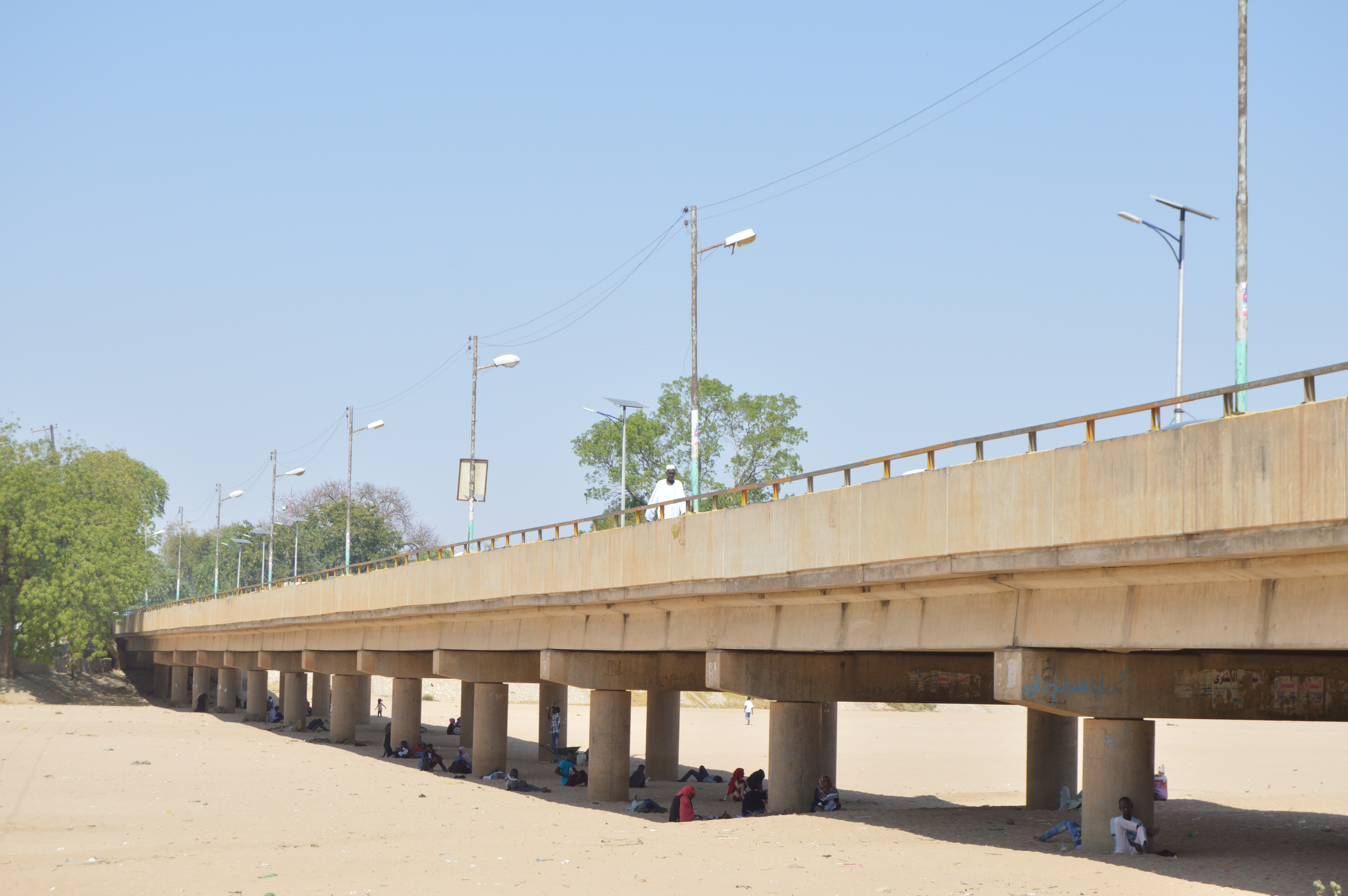 كبري نيالا الرئيسي WLASudan2020 This is an image with the theme "Africa on the Move or Transport" from: Sudan